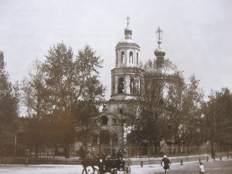 Tihvin Church in Kazan, 19 c.